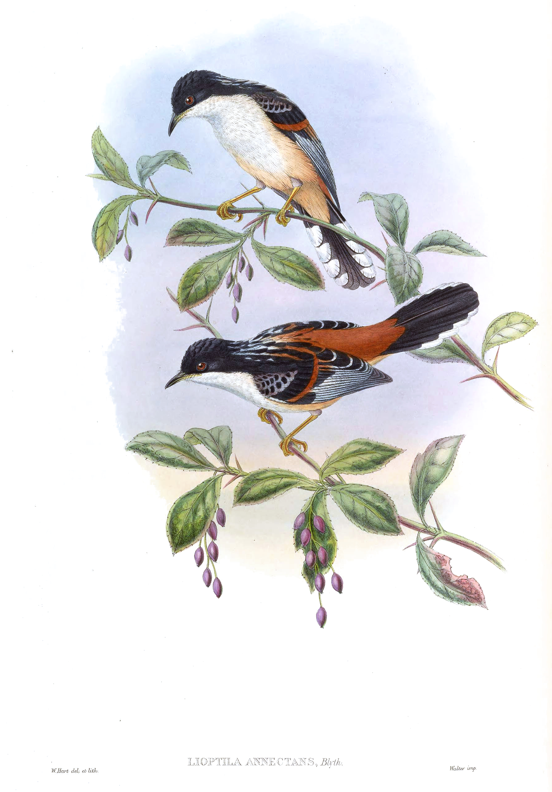 Lioptila annectans = Heterophasia annectens